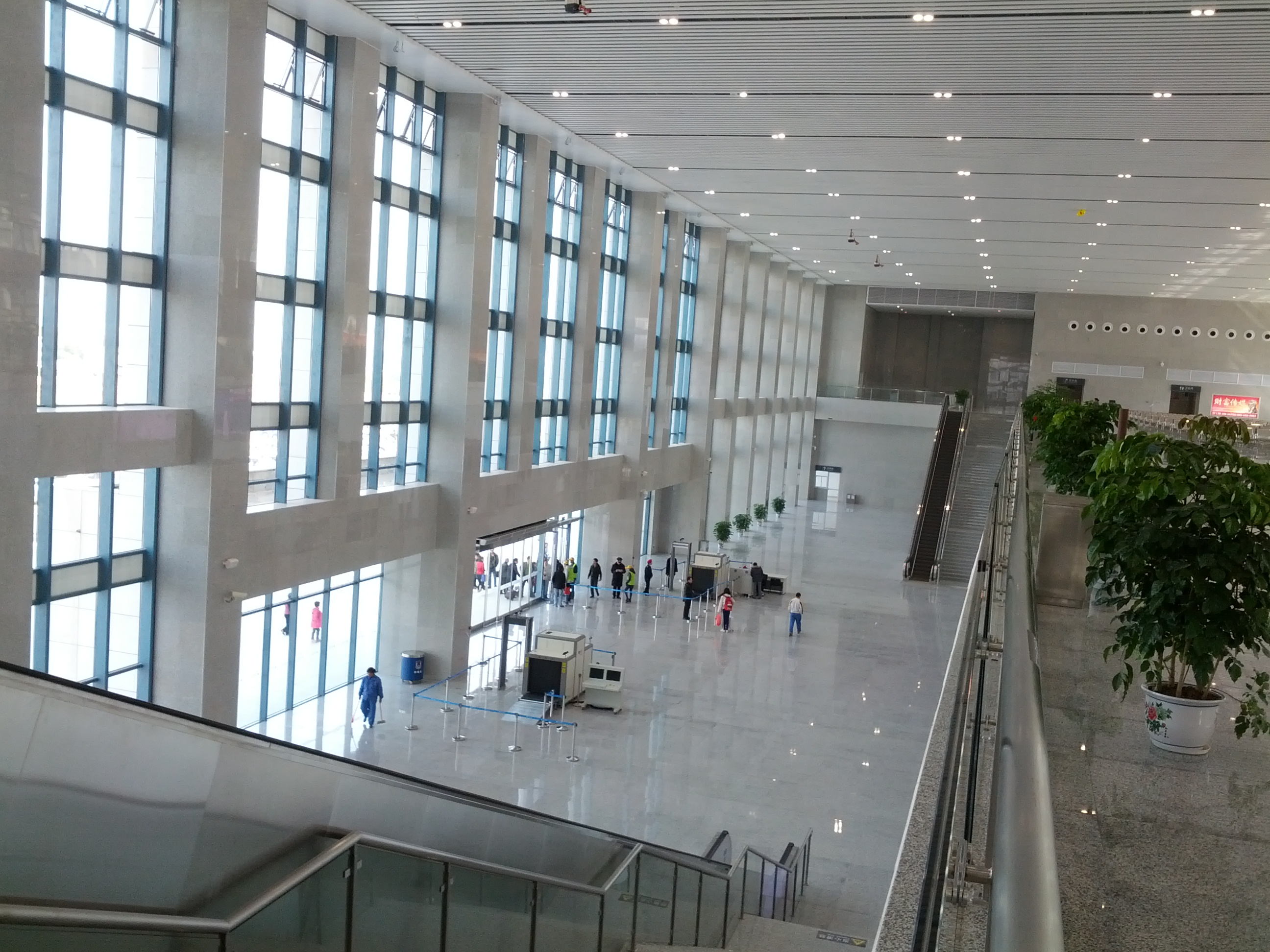 Entrance of Huizhounan Railway Station中文（中国大陆）: 惠州南站入口